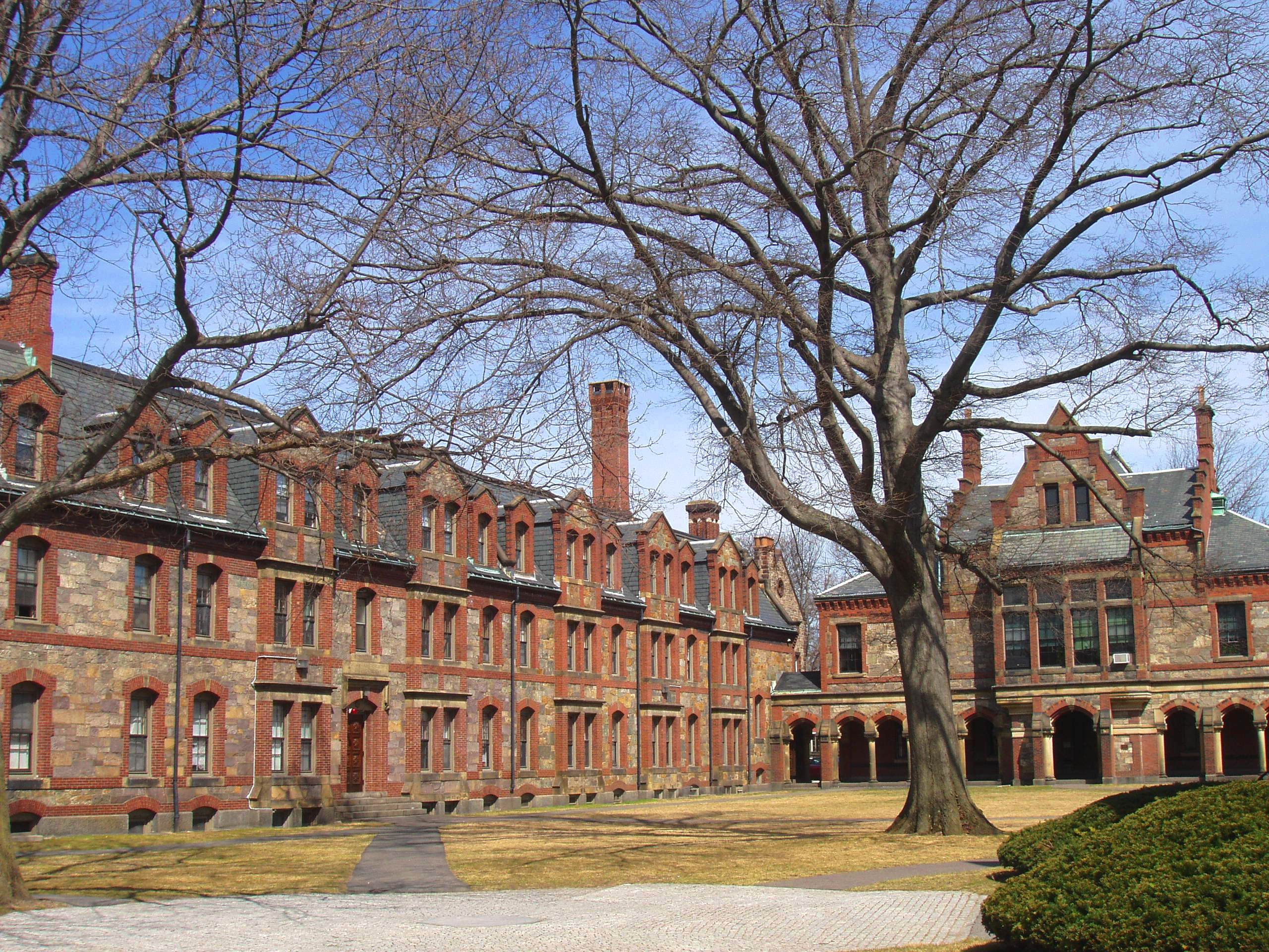 Photograph of the Episcopal Divinity School, Cambridge, Massachusetts, USA. Architects Henry Van Brunt and William Robert Ware.